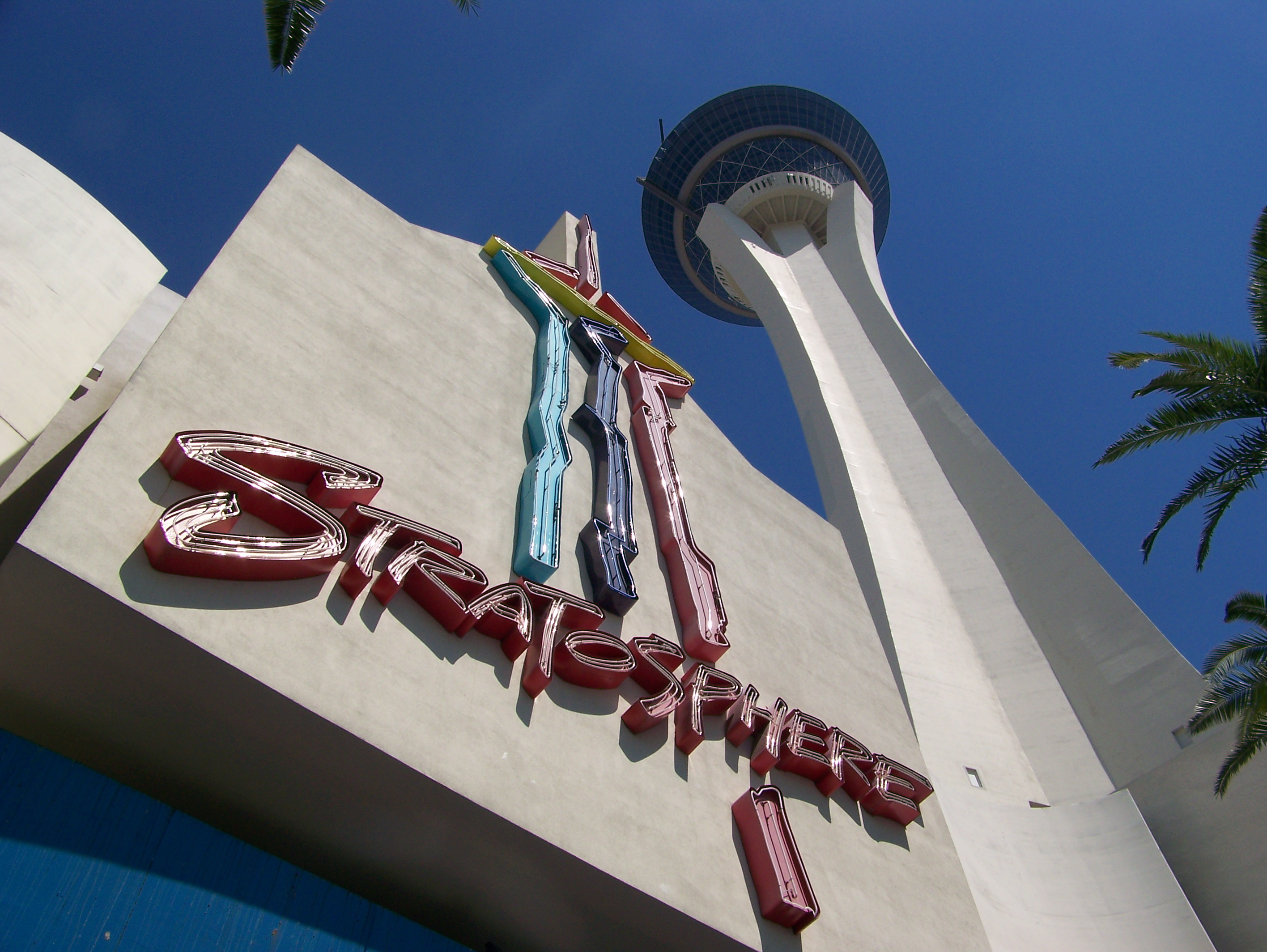 A view of the Stratosphere from below in Las Vegas